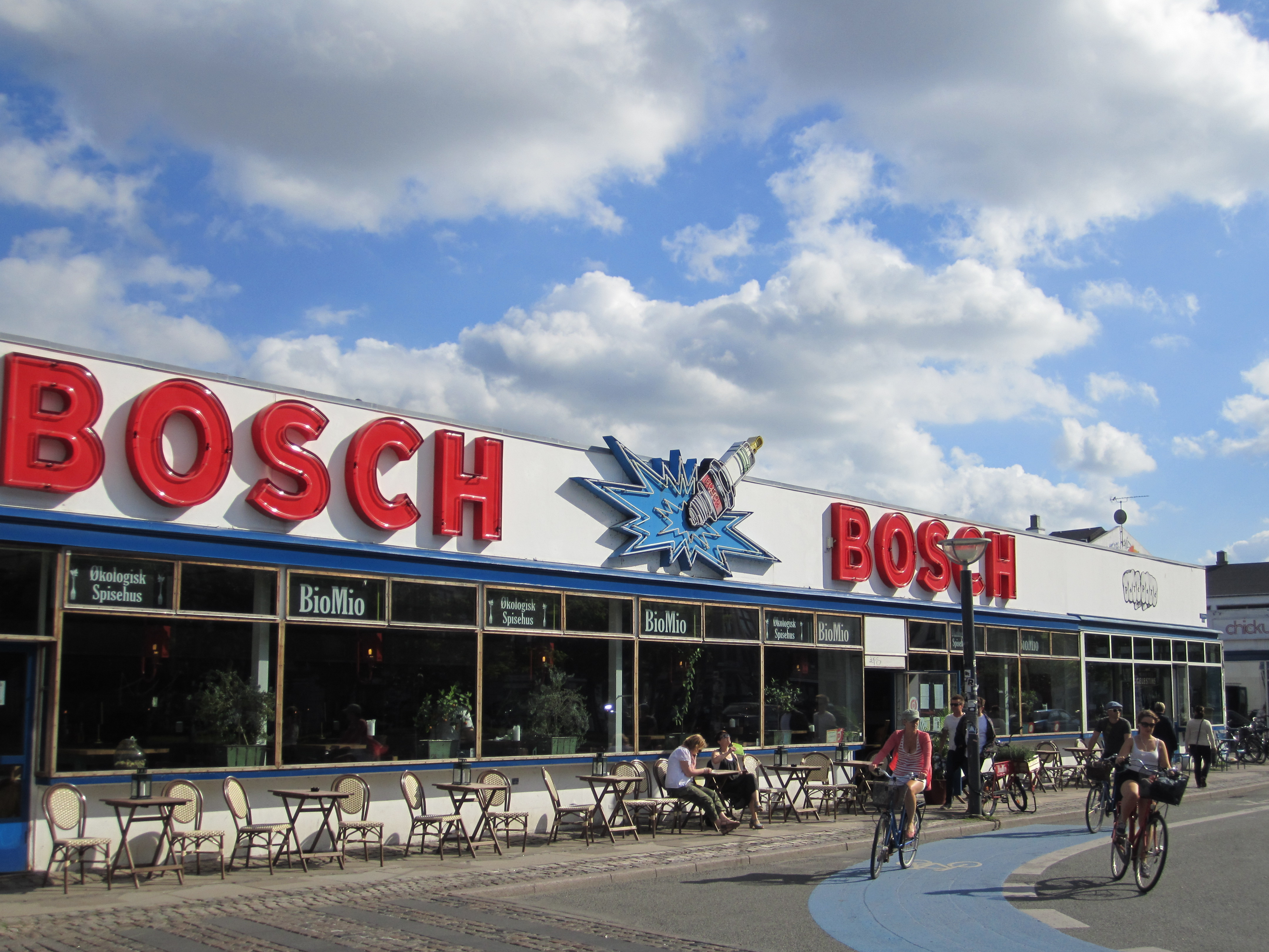 A restaurant at Halmtorvet in one of the buildings of the White Meat District in Copenhagen, Denmark